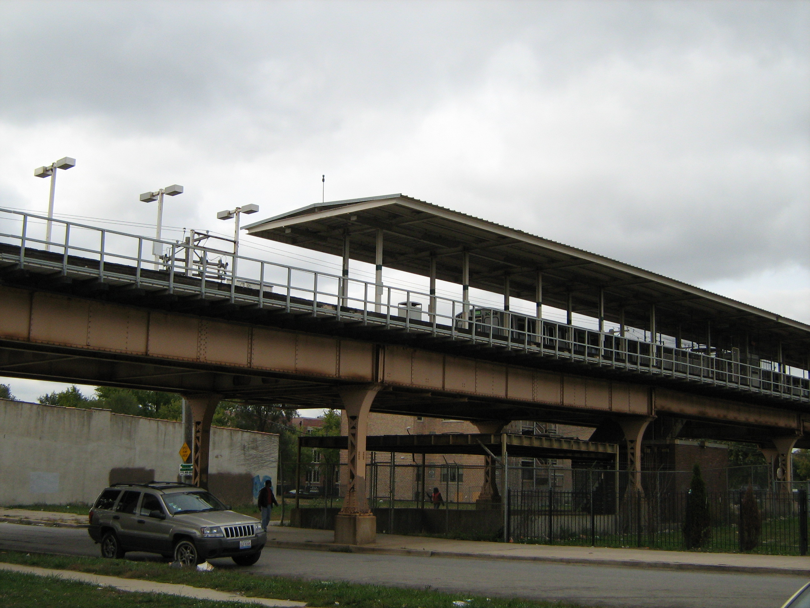 Abandoned 58th Street CTA Green Line